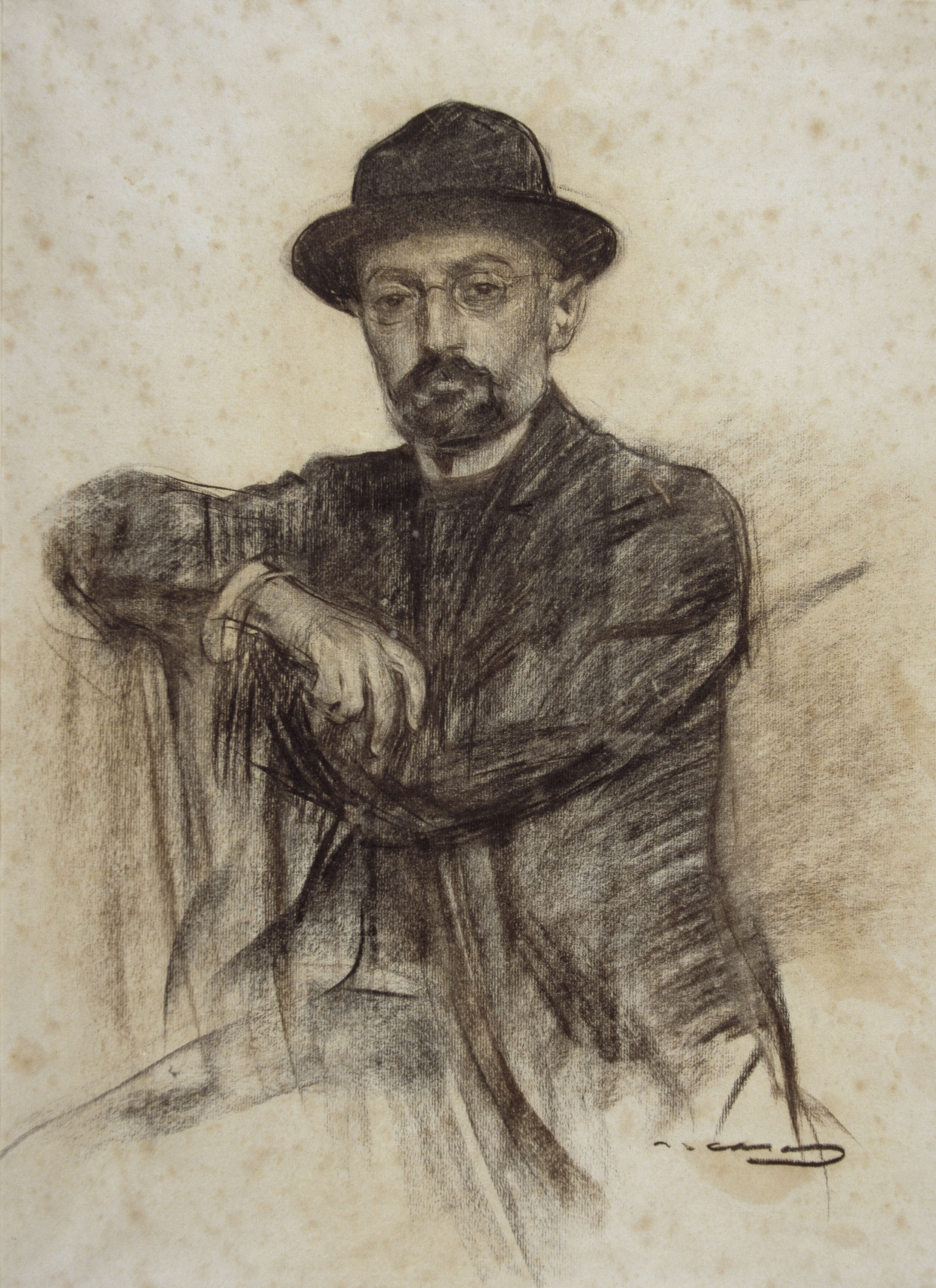 Portrait by Ramon Casas conserved at MNAC in Barcelona.